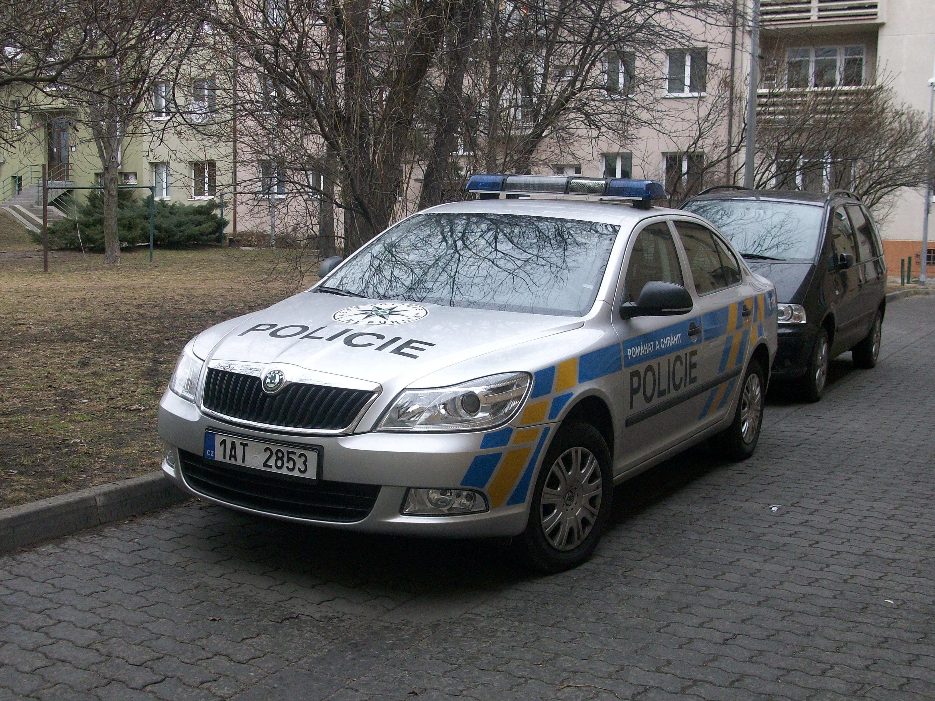 Police automobiles in the Czech Republic in Prague, Škoda